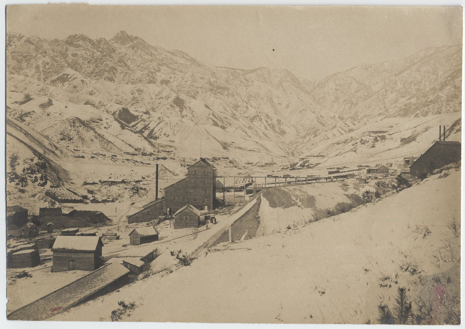 Collection: Willard Dickerman Straight and Early U.S.-Korea Diplomatic Relations, Cornell University Library Title: Winter in the mines. Tabowie camp Date: ca. 1908 Place: Asia: North Korea; Unsan Type: Photographs Description: Americans Leigh S.J. Hunt and J. Sloat Fasset formed Oriental Consolidated Mining Company and bought Korean Mining and Development Company in May 18, 1898. The Oriental Consolidated Mining Company owned 10 gold pits in Unsan, Pyongan-pukto. Tabowie was one of the pits in Unsan Gold Mine. Unsan previously was a small village with only a few households, but it evolved into a very different place through the mining business association with the American entrepreneurs. Between 1903 and 1938 the annual profit from the gold mining reached more than $12,000,000, but the backward Korean Royal government sold the Korean Mining and Development Company for only $100, 000. Had the Korean government not sold the mining owning right for a lump-sum payment, it could have achieved a price as high as $3,000,000. The mining by the Americans continued until they were forced to relinquish operations to the Japanese in 1939. Source: Yi, Pae-yong. Ku Hanmal kwangsan ikwon kwa yolgang, 1984. Chapter 2. Inscription/Marks: Inscribed in pencil on verso: 'Winter in the mines. Tabowie camp.' Image has been pasted into & removed from an album. Recto has traced of red paper still left on image surface. Identifier: 1260.63.38.14 Persistent URI: There are no known U.S. copyright restrictions on this image. The digital file is owned by the Cornell University Library which is making it freely available with the request that, when possible, the Library be credited as its source. We had some help with the geocoding from Web Services by Yahoo!